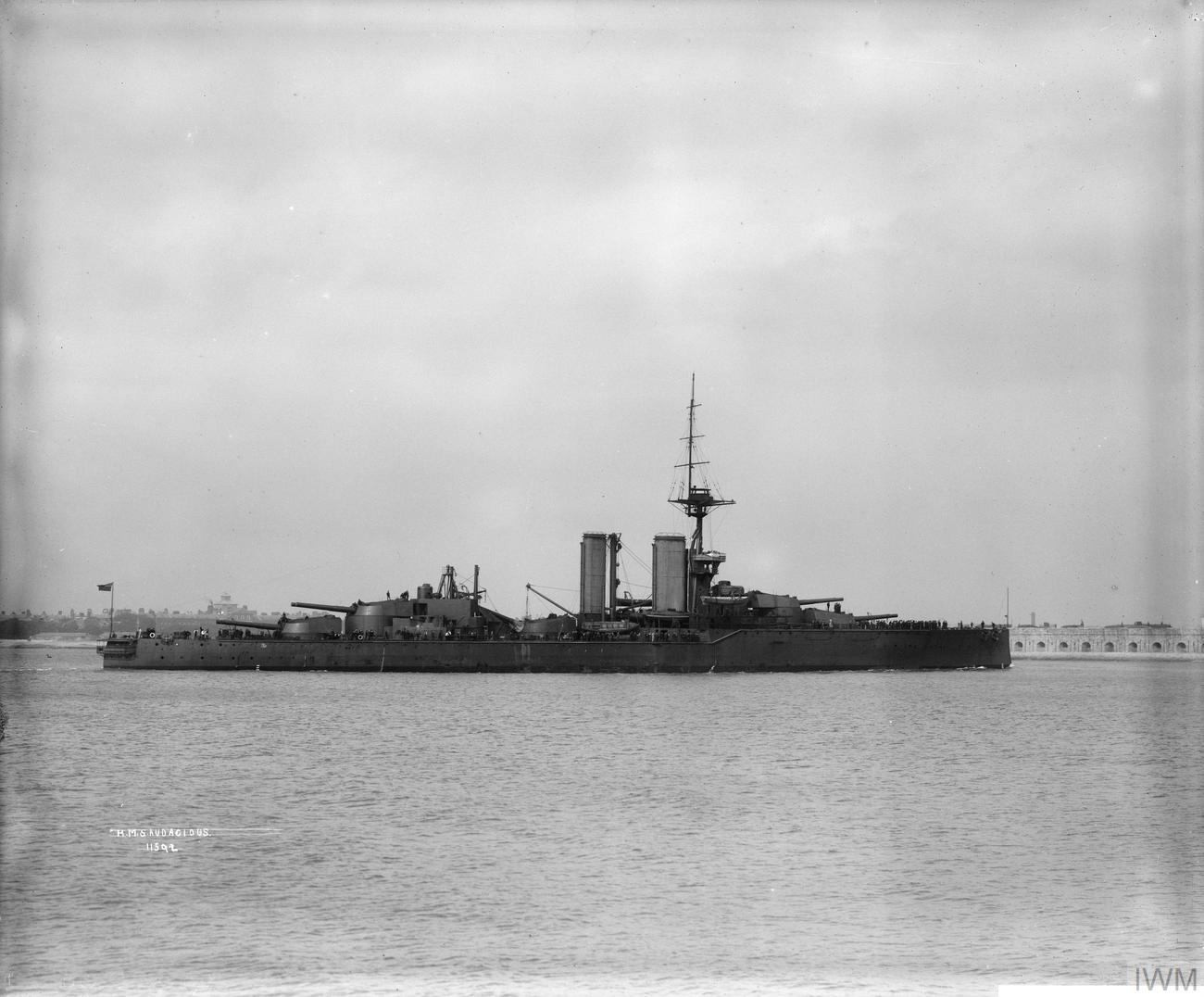 HMS Audacious as completed. Mined and sunk off Lough Swilly, Ireland on 27 October 1914.